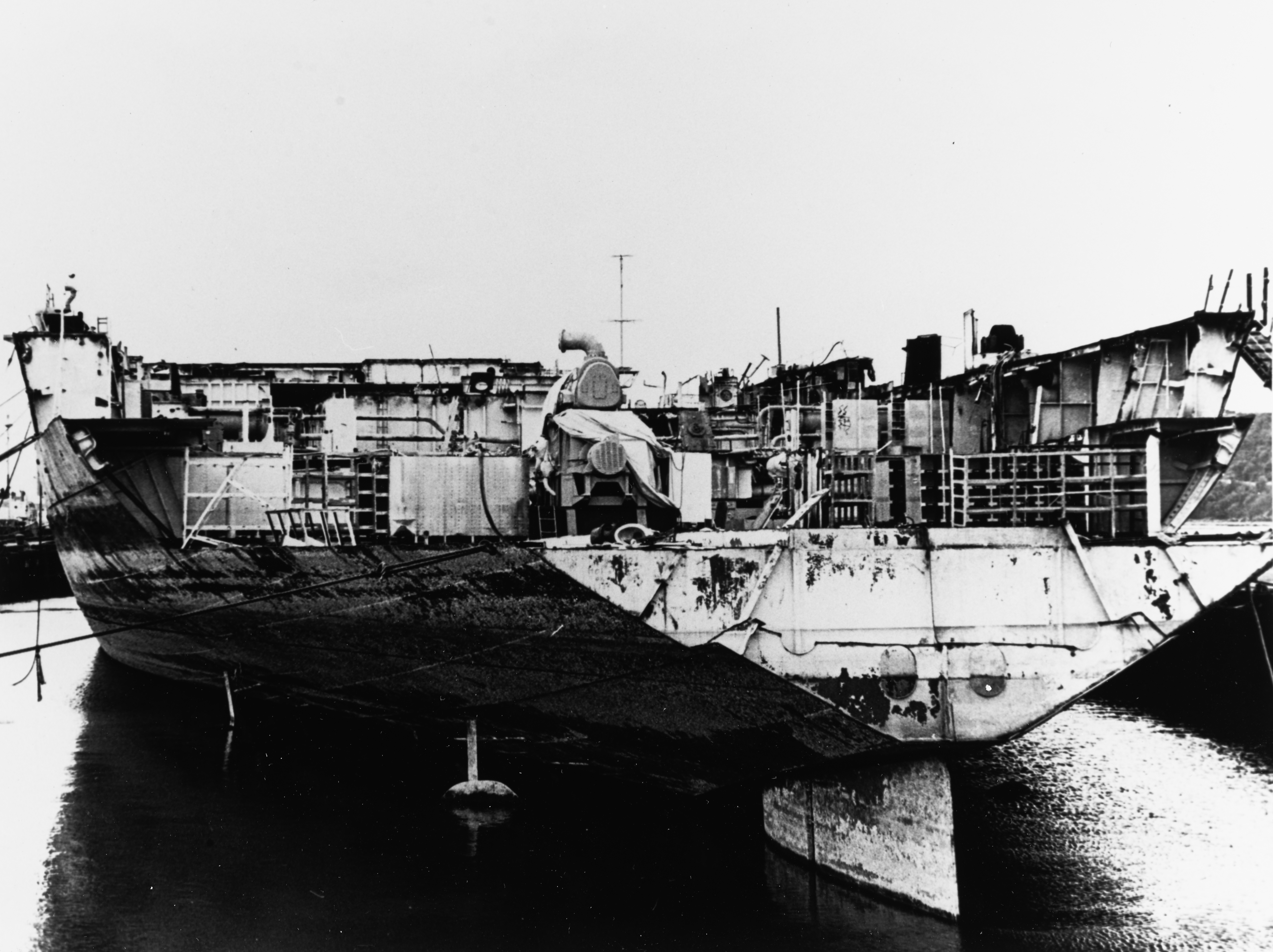 The U.S. Navy aircraft carrier USS Bunker Hill (CV-17) being scrapped at Tacoma, Washington (USA), circa in 1973.